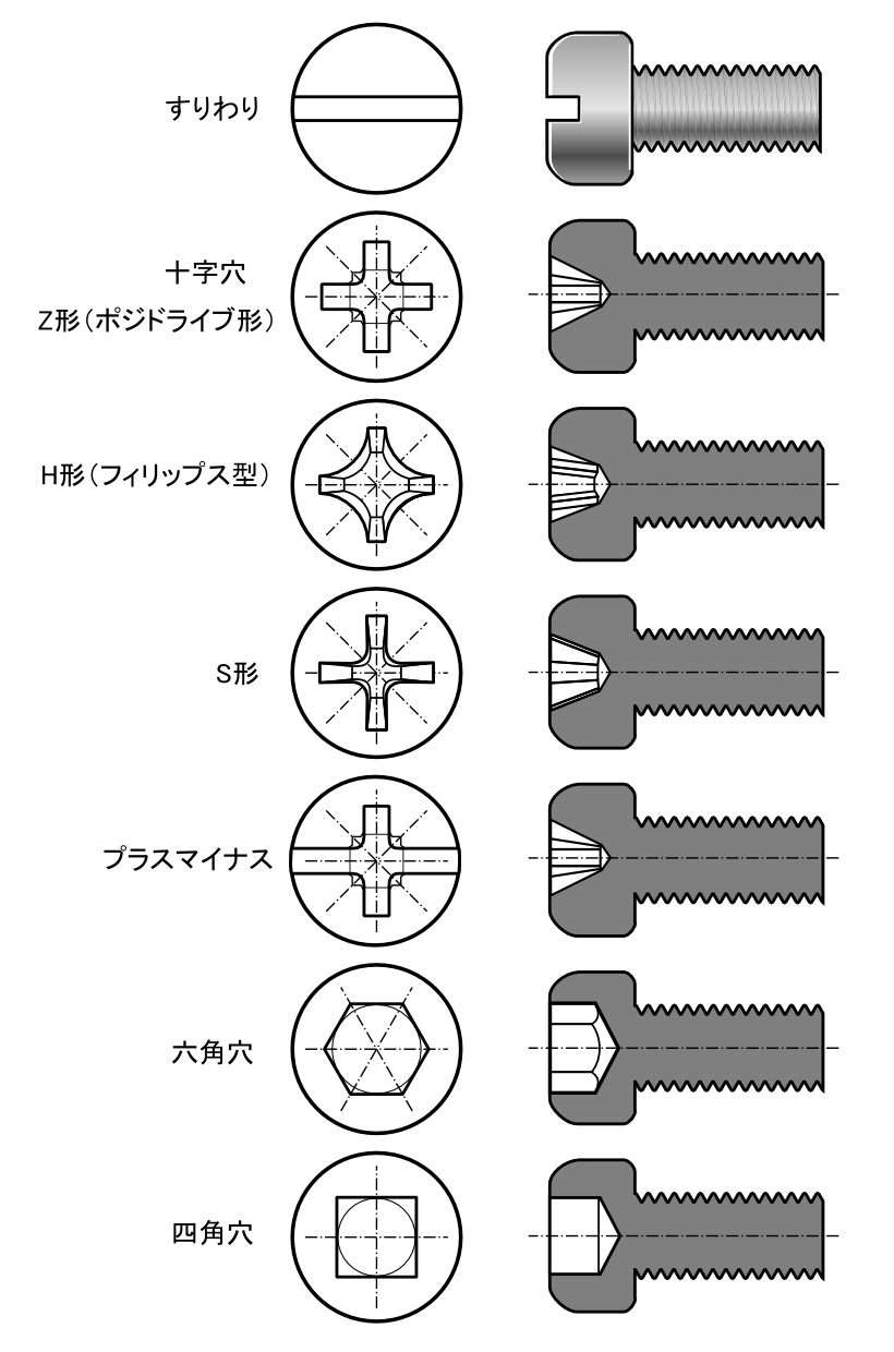 Screw (bolt) 11A-J